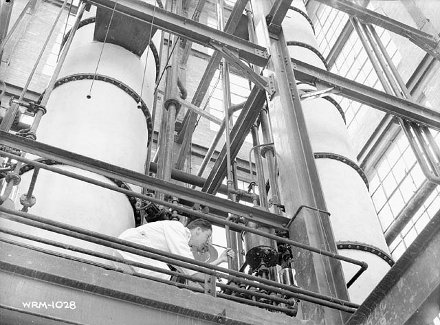 Workman adjusts a valve at the base of a chemical-mixing tank at the Shawinigan Chemicals Ltd. plant